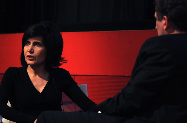 Photo by the Architecture Foundation/Jack Goffe of Farshid Moussavi at the Tate Gallery